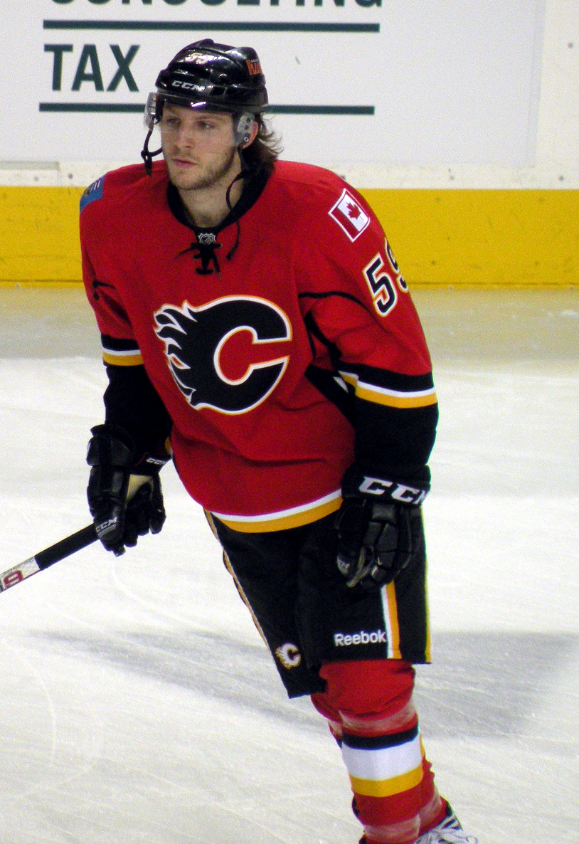 Calgary Flames forward Max Reinhart prior to a National Hockey League game against the Phoenix Coyotes